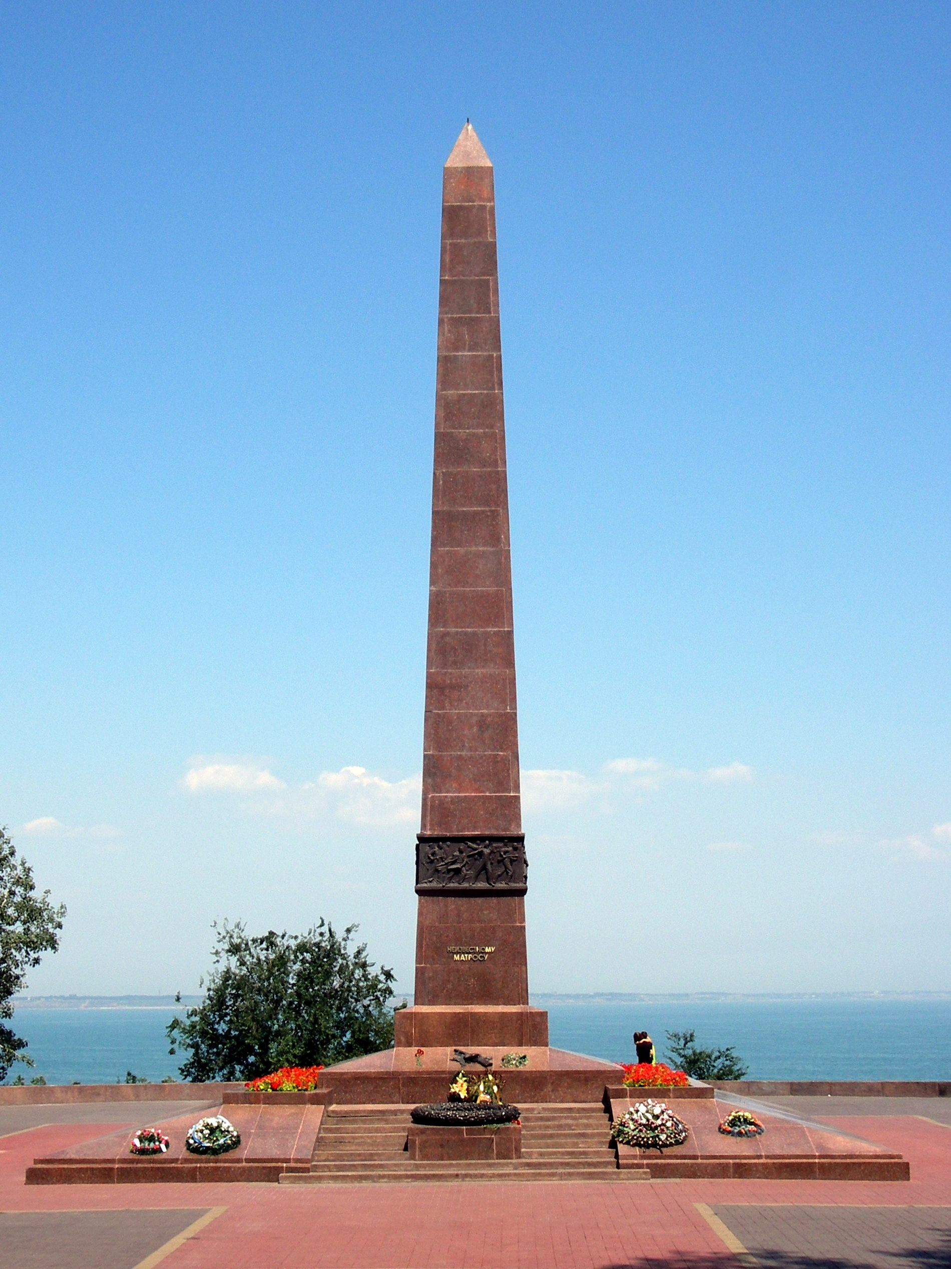 Odessa war memorial